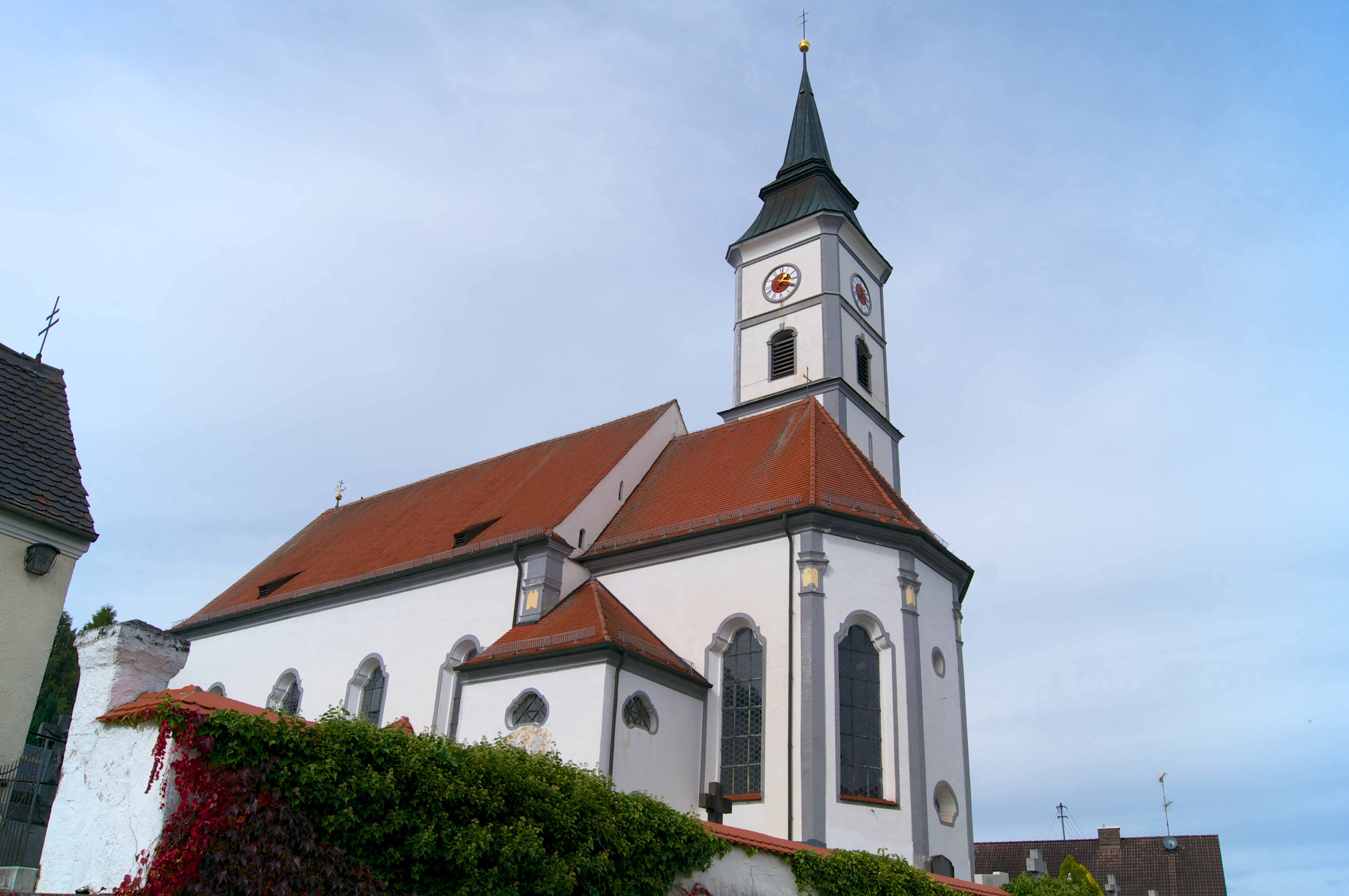 Church Saint Martin in Thaining, administrative district Landsberg am Lech from Southeast